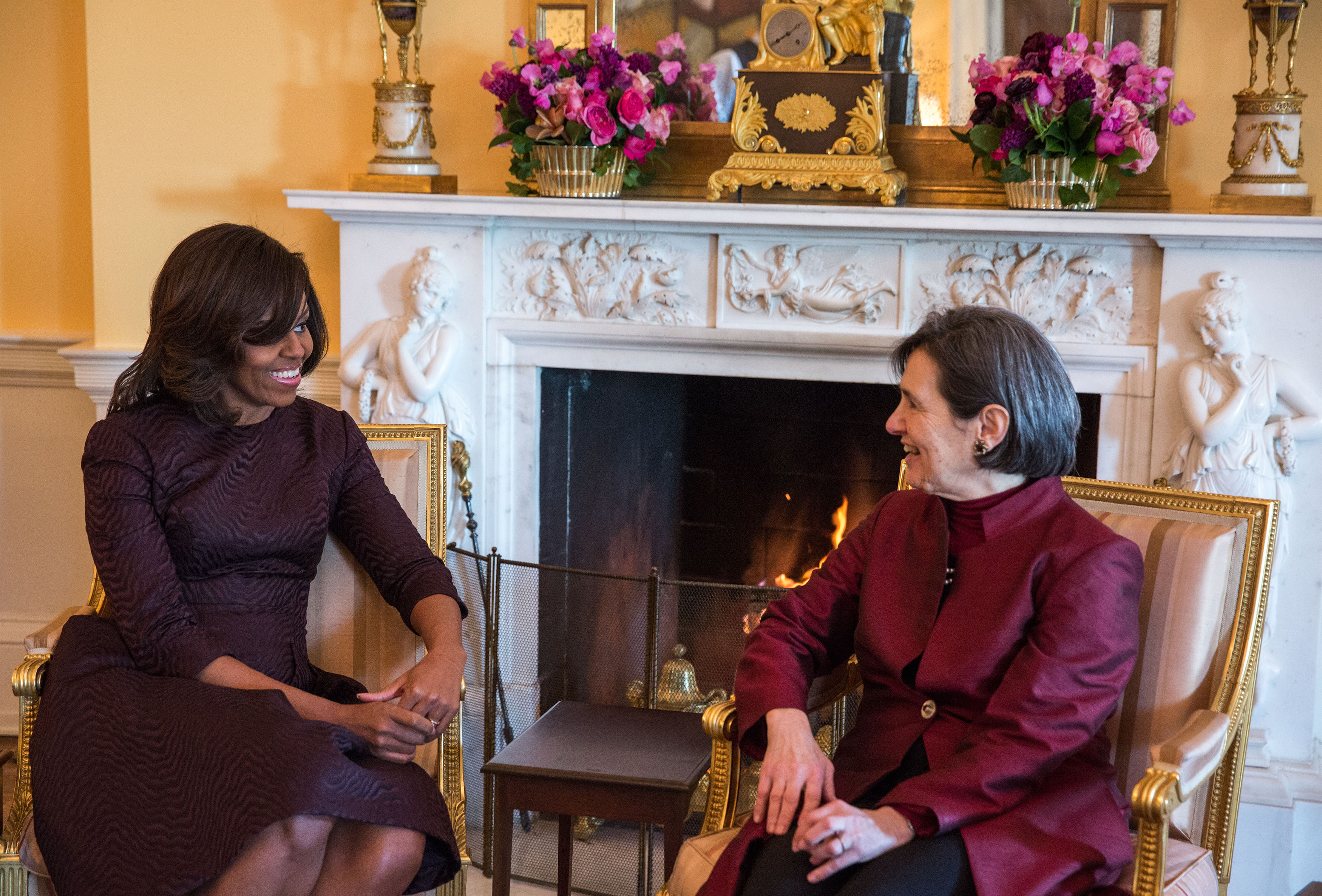 First Lady Michelle Obama hosts a tea with Mrs. Rula Ghani, First Lady of Afghanistan, in the Yellow Oval Room of the White House, Feb. 23, 2015. (Official White House Photo by Amanda Lucidon)